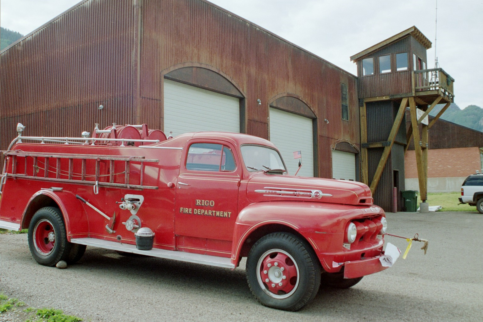 A classic Ford "Big Job" fire truck stands outside of the Rico Volunteer Fire Department in Rico, Colorado!